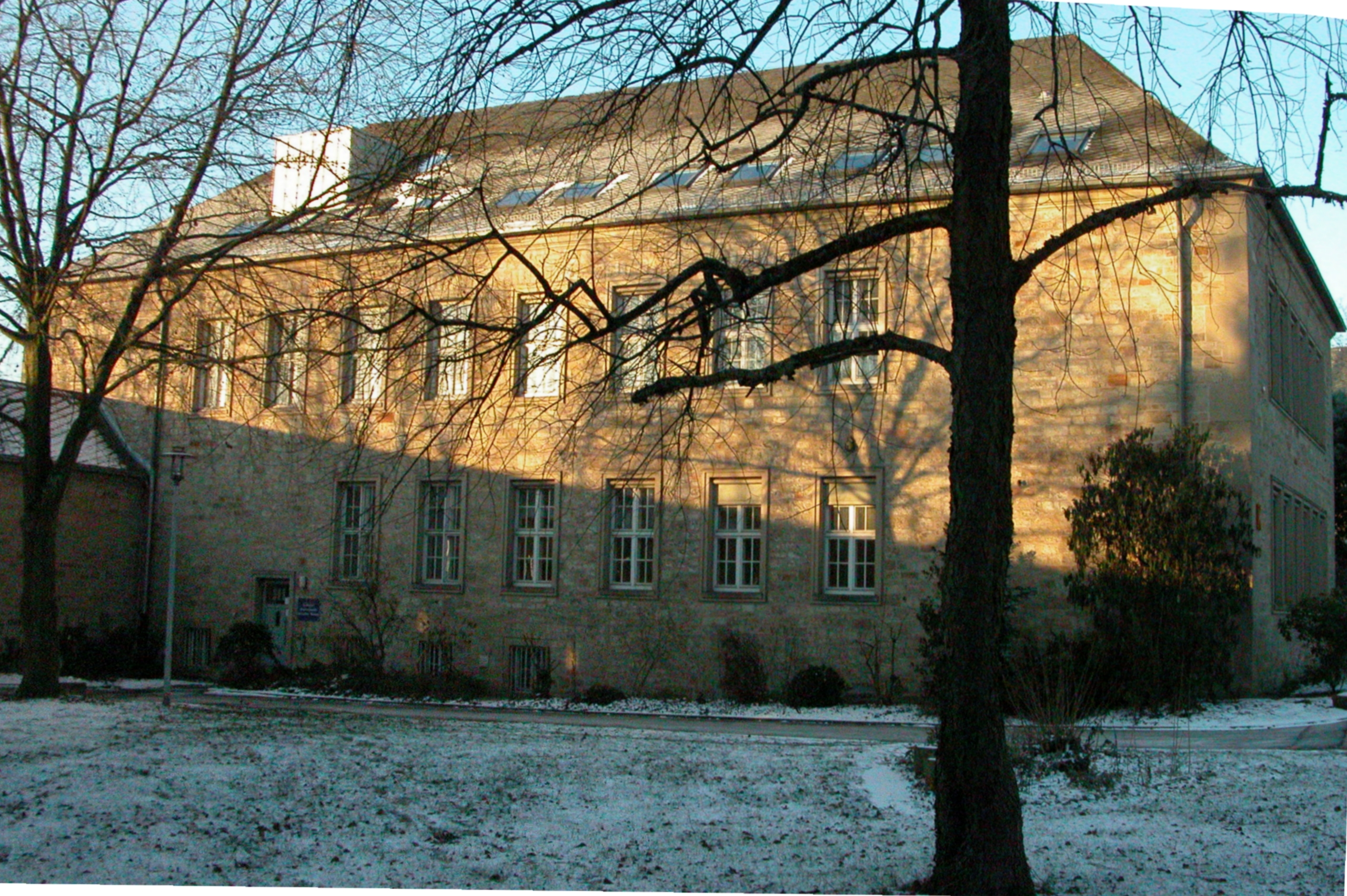 University of applied sciences Trier, historical buildings - Business school